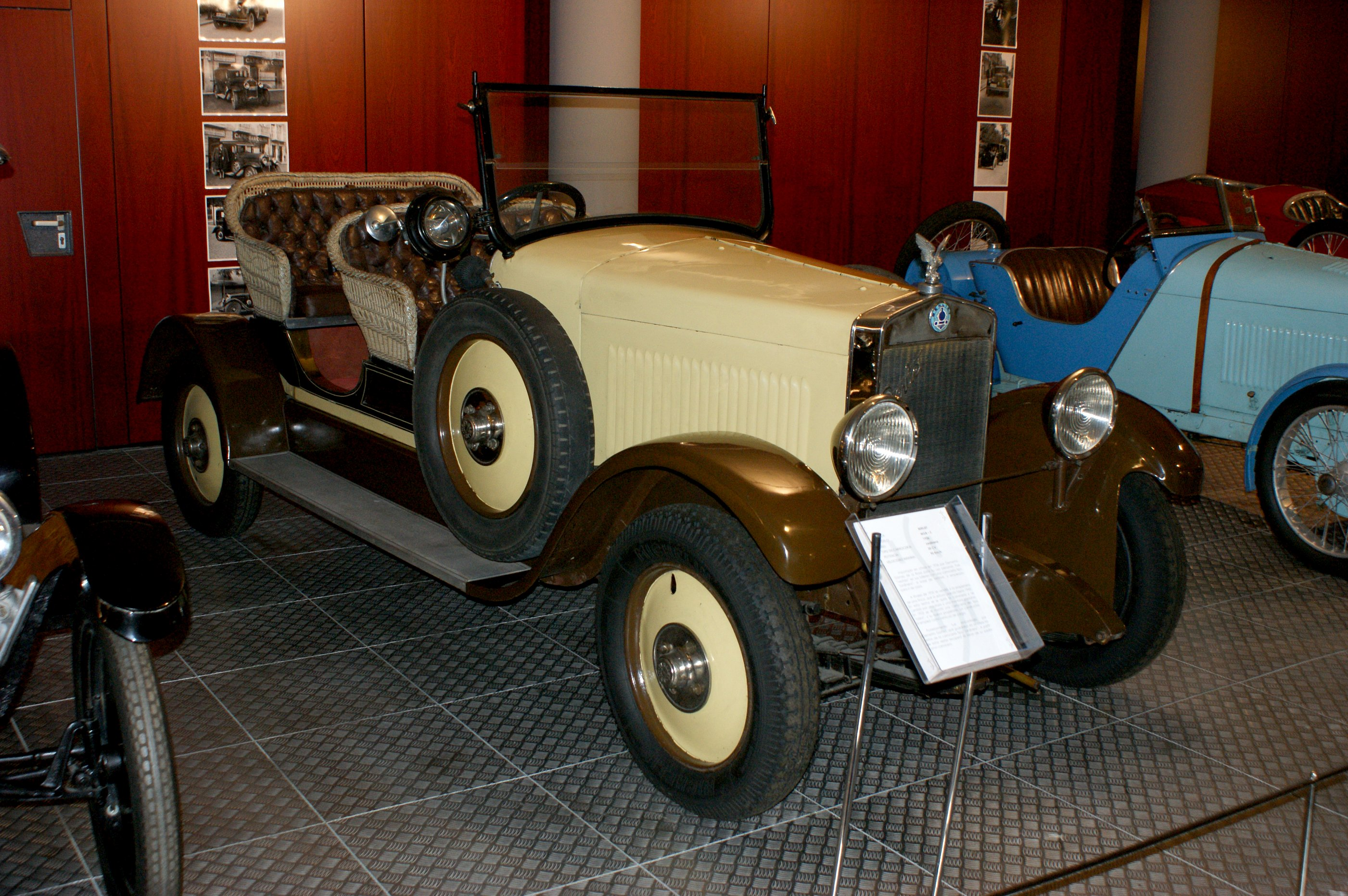 1922 Berliet MGB-2 Jardinera at the Salamanca Motor Museum, 04/08.